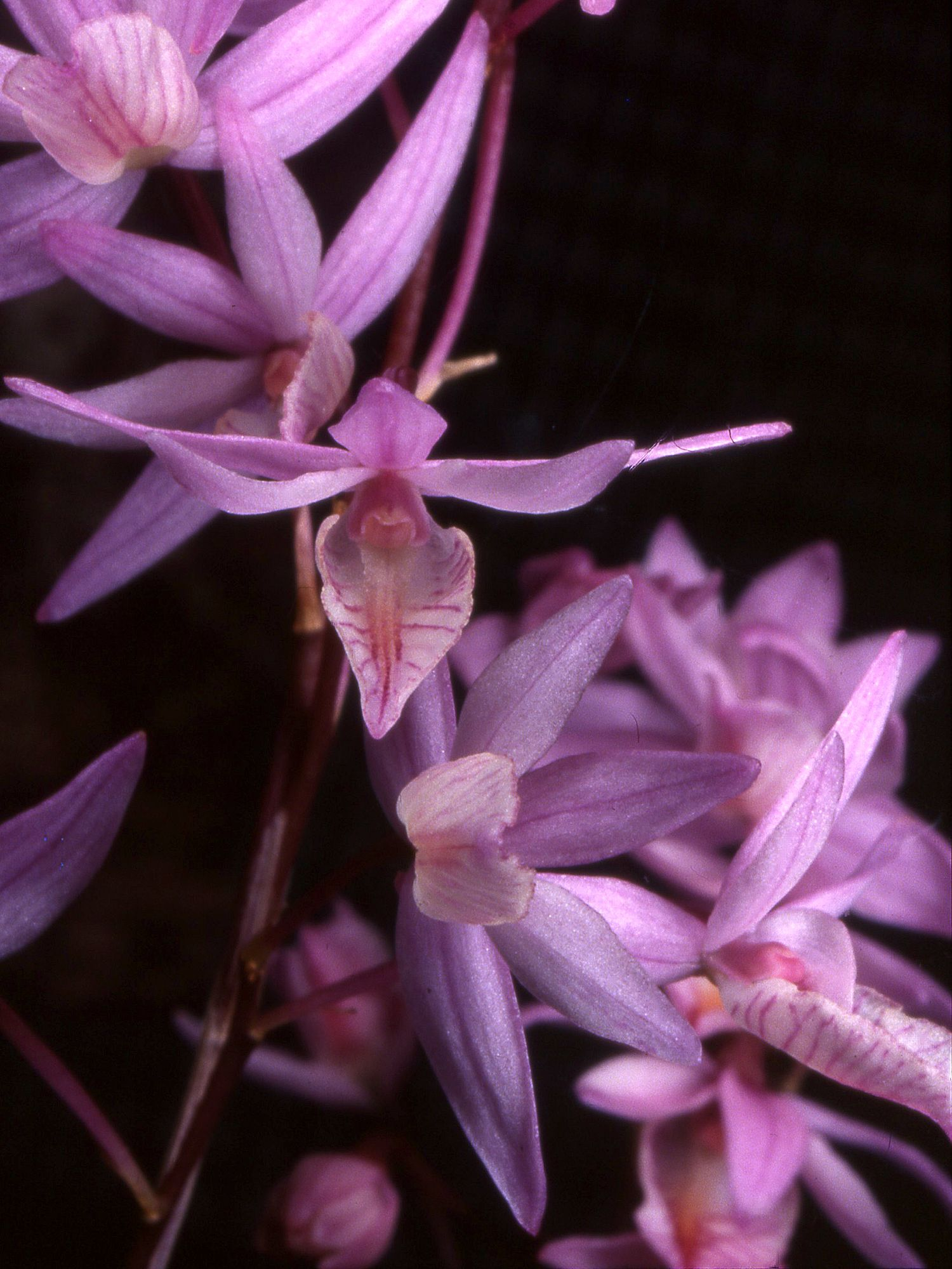 Barkeria strophinx